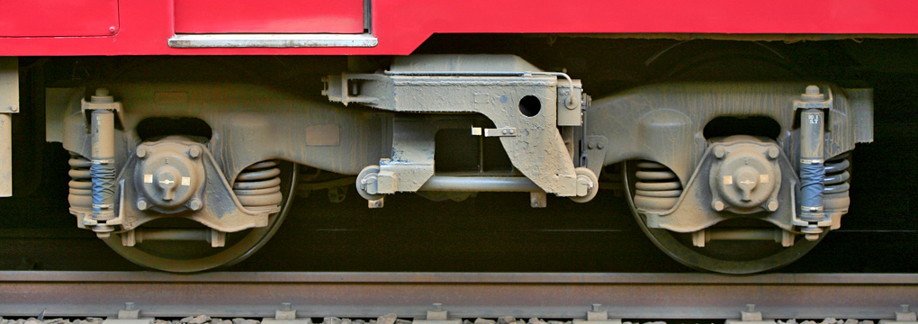 Type TR69H Bogie truck of JR West's JNR 485 series EMU.